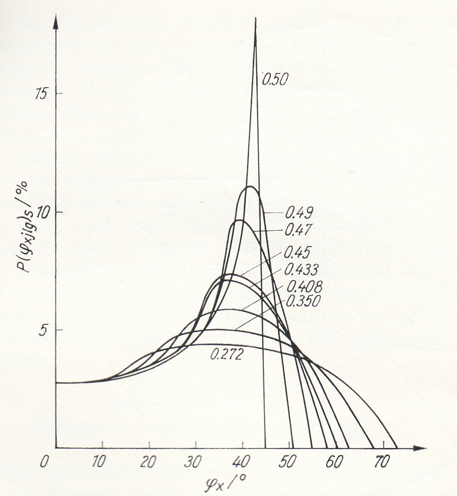 Calculated probability distribution of the azimute φx. The parameter of the load smin is indicated at the curves